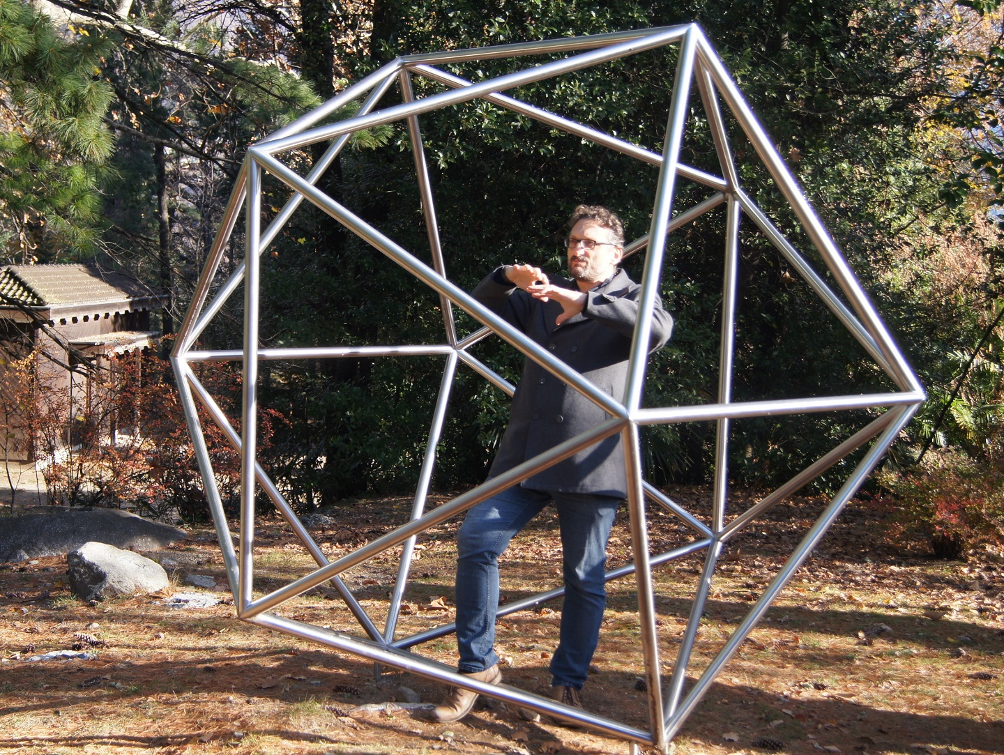 Ikosaeder at Monte Verita, Asona - "Labans dancing area"